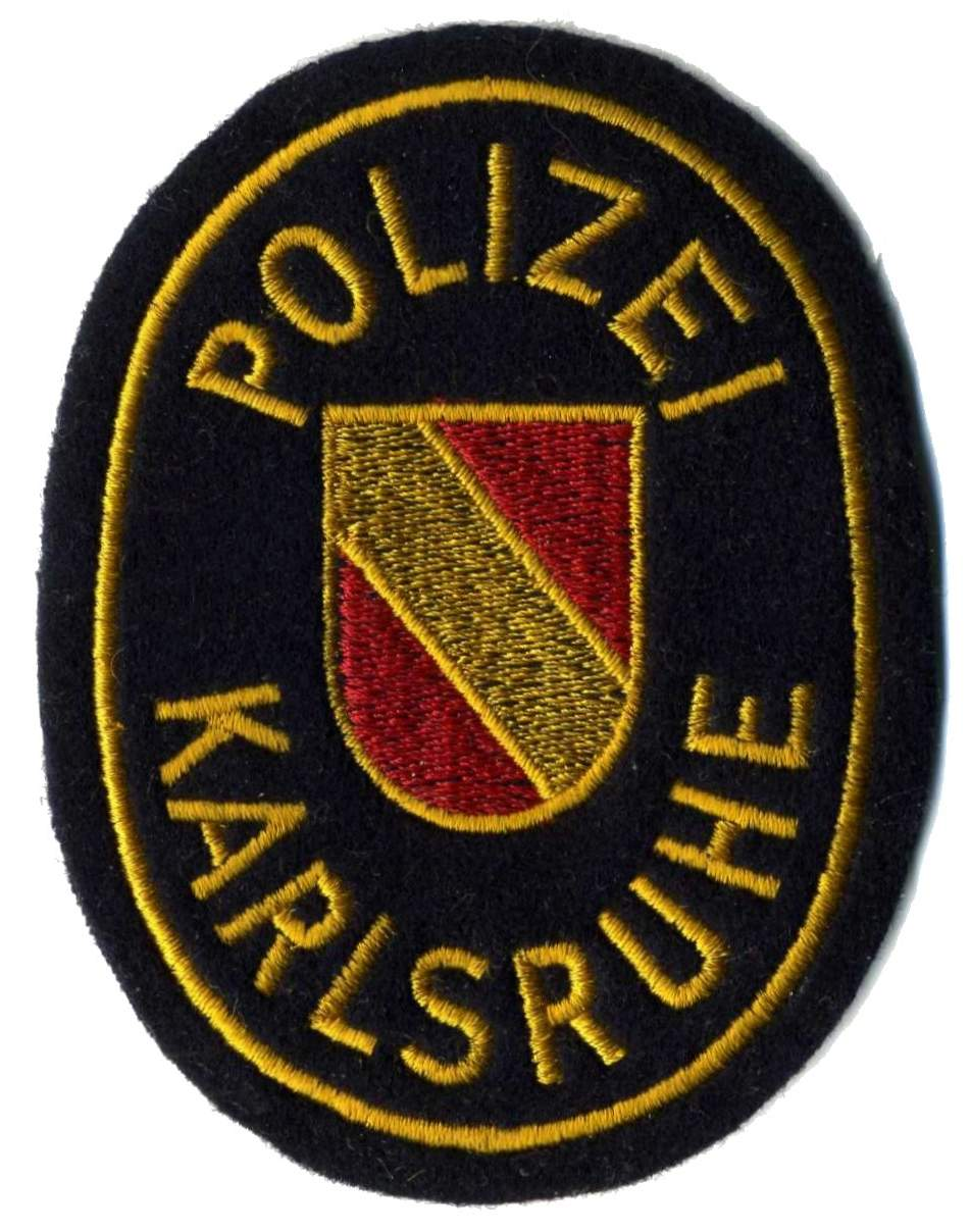 Part of my collection of GERMAN Law Enforcement insignia The City of Karlsruhe is now policed by Polizei Baden-Wuerttemberg